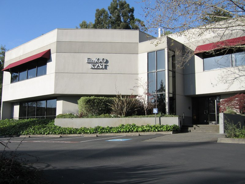 The KZST-FM studios and offices, Santa Rosa Self-taken 5 April 2006 with Canon PowerShot SD500 Digital ELPH and compressed with Paint Shop Pro